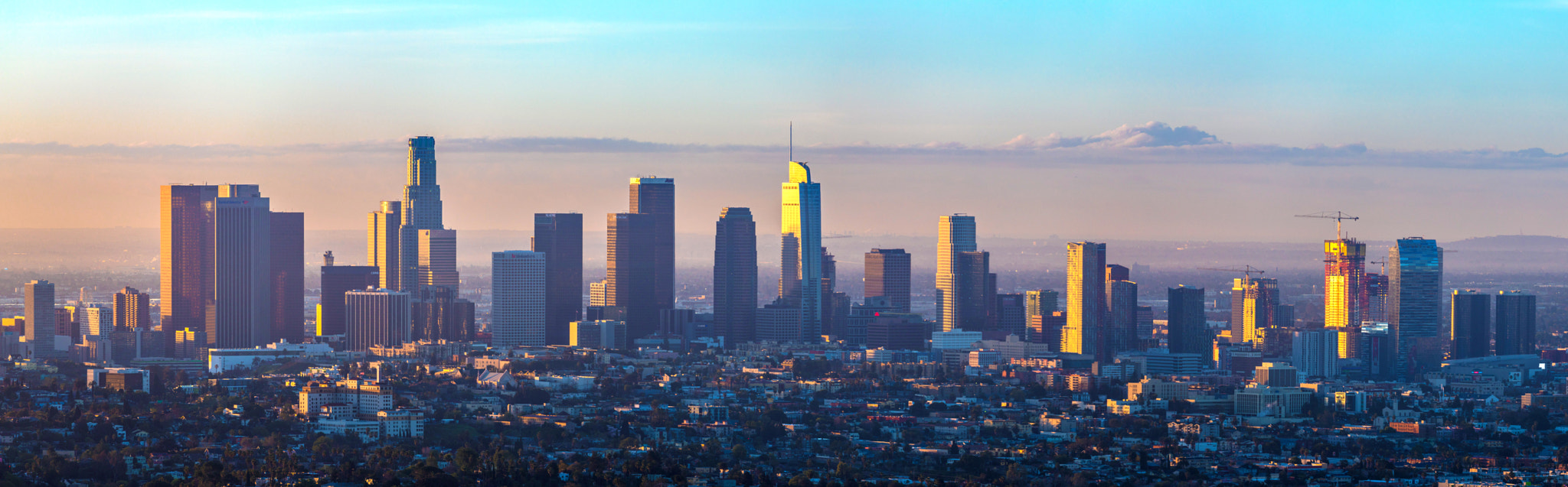 500px provided description: This is a panoramic composition of DTLA taken during the sunset of 03/18/2018. The shot was taken from the Griffith observatory. [#sky ,#city ,#street ,#downtown ,#buildings ,#tower ,#architecture ,#cityscape ,#building ,#california ,#skyline ,#skyscraper ,#los angeles ,#waterfront ,#dusk ,#street lamp ,#high-rise ,#high rise ,#hms belfast ,#dtla ,#LA ,#downtown LA]